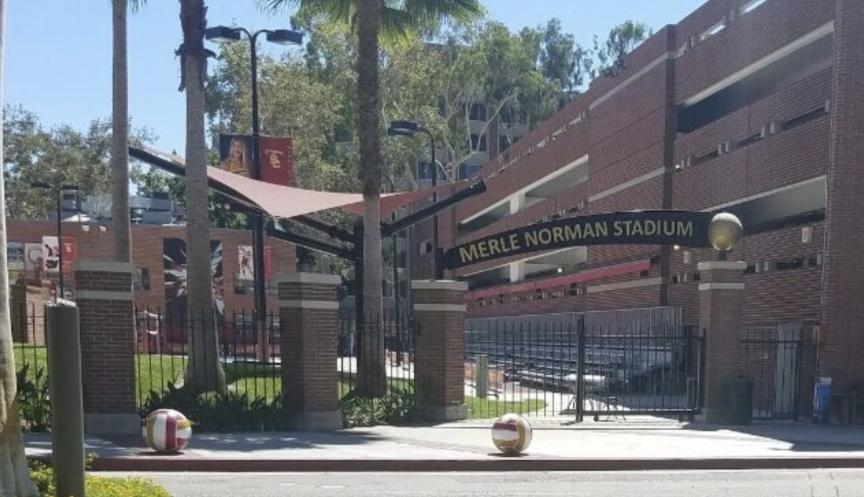 Merle Norman Stadium entrance